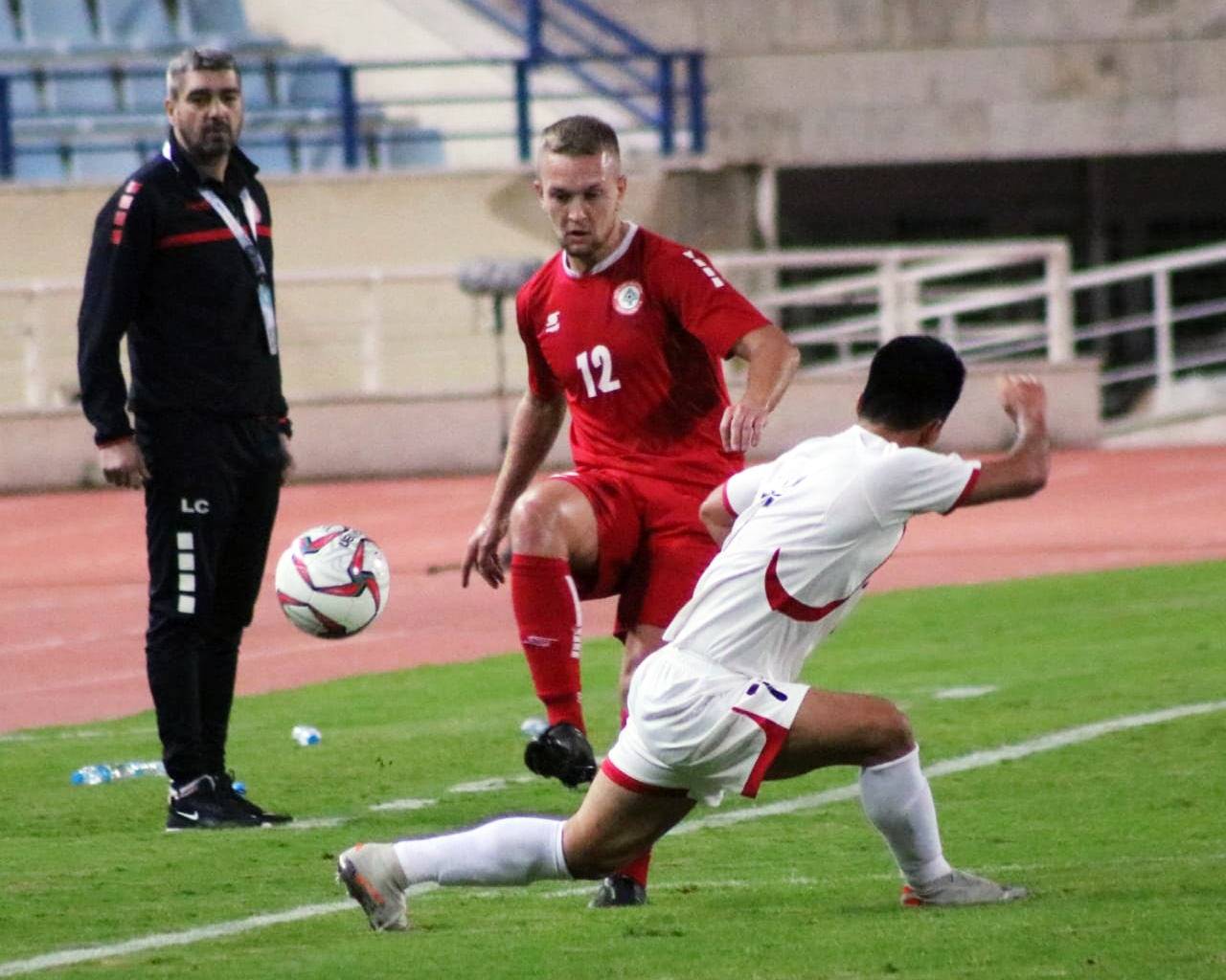 Lebanon v North Korea at the 2022 FIFA World Cup qualifiers.